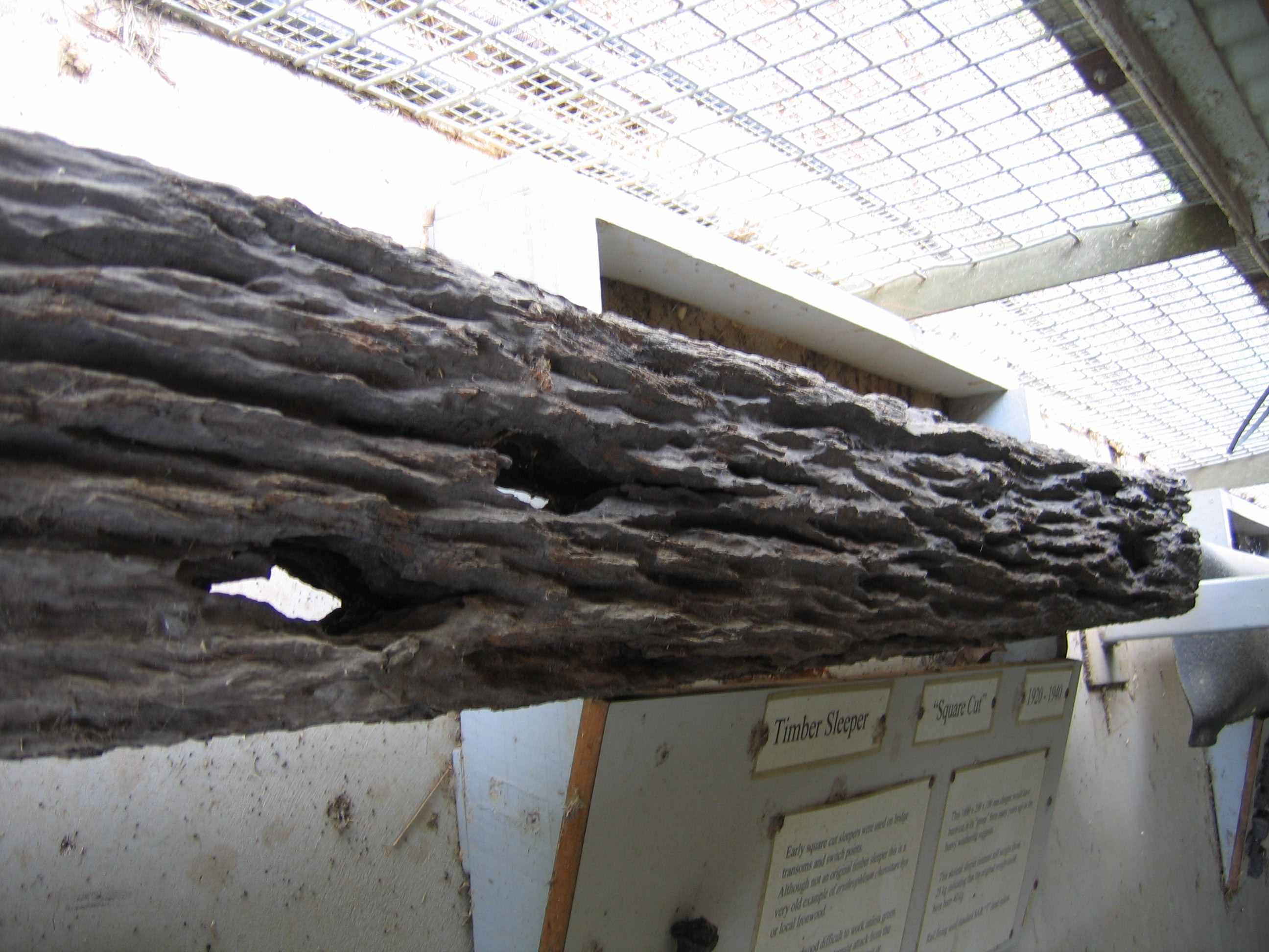 Sleeper damaged by termites